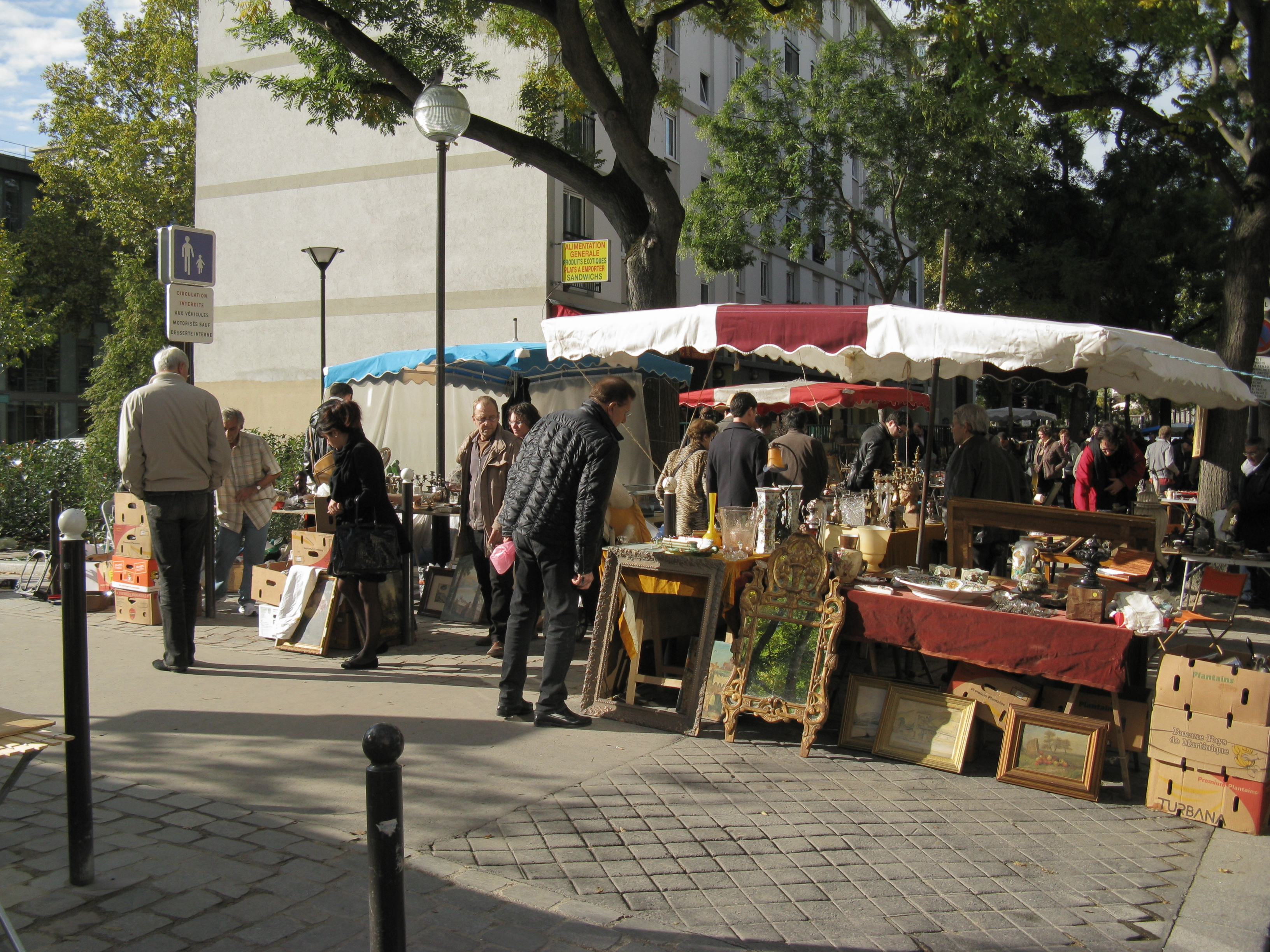 Flea market at the Porte de Vanves in Paris, France.